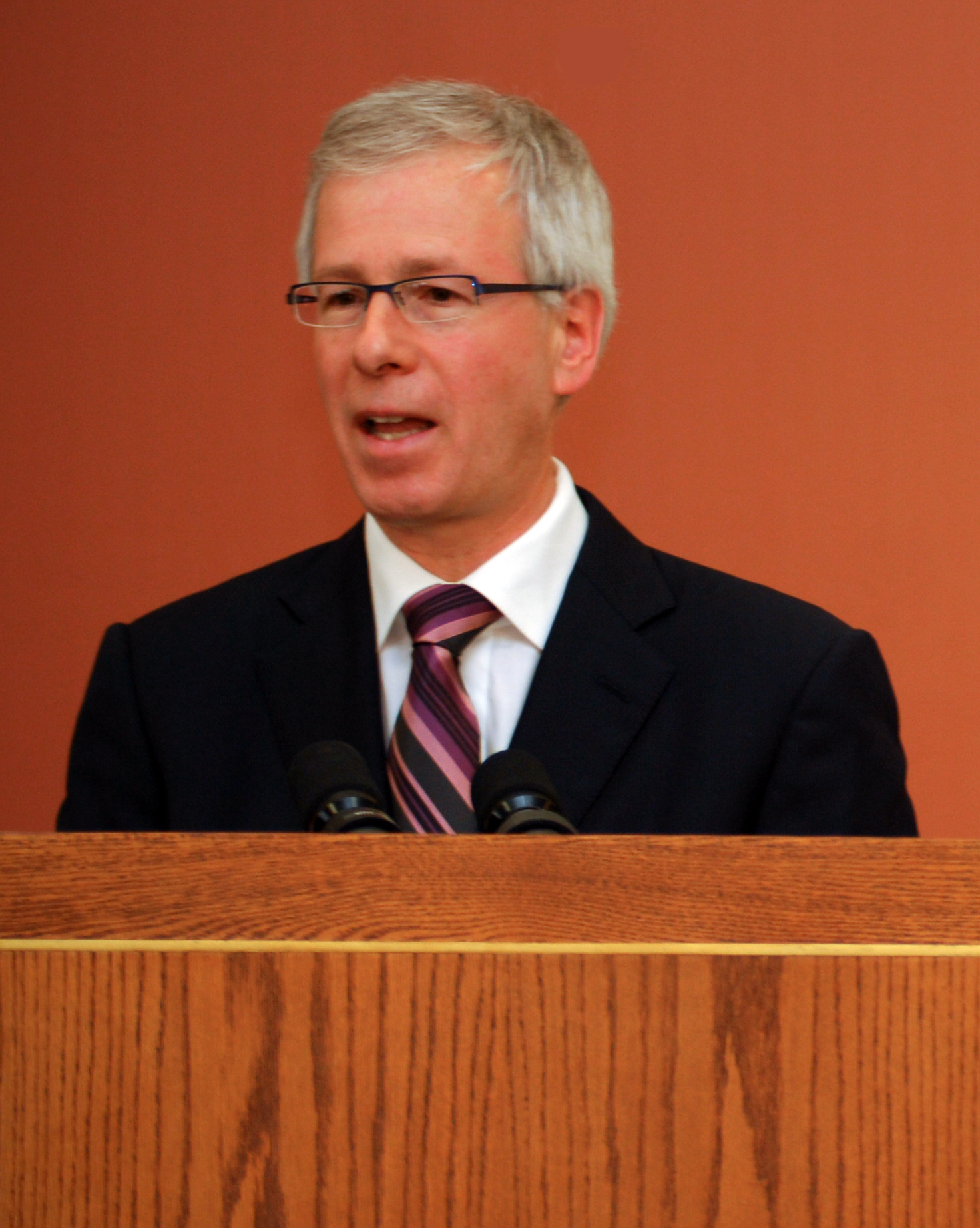 Liberal Opposition Leader, Stephane Dion, speaks at the opening inauguration of the Baitan Nur Mosque in Calgary Alberta, considered the largest mosque in Canada.